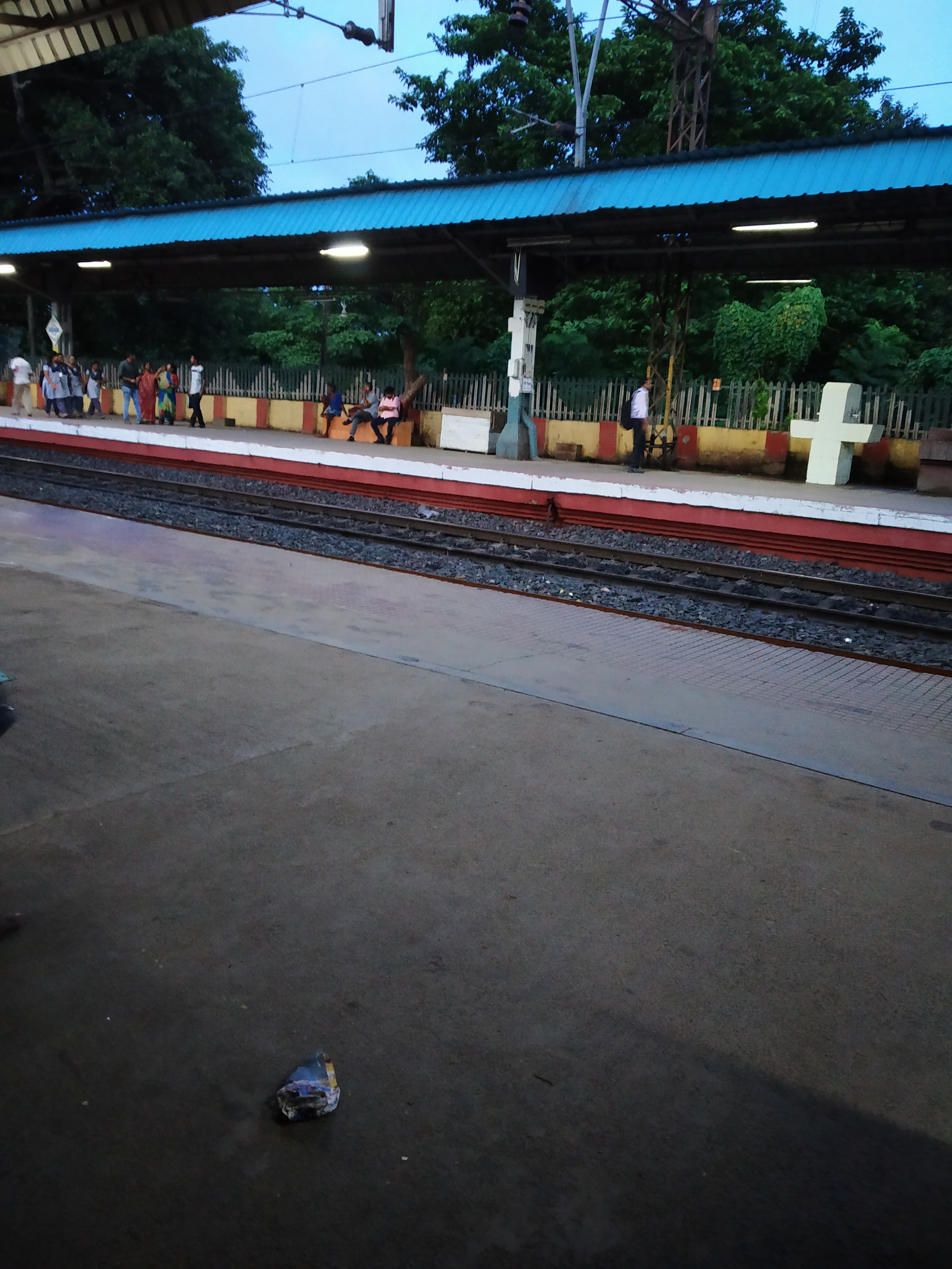 Chinsurah Railway Station Hooghly District West Bengal